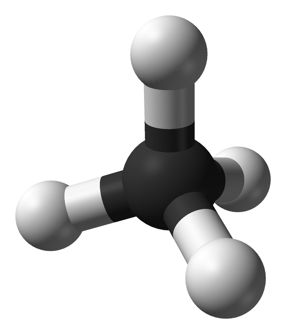 Ball-and-stick model of the methane molecule, CH4. Structural information (determined by microwave spectroscopy) from CRC Handbook, 88th edition. Image generated in Accelrys DS Visualizer.